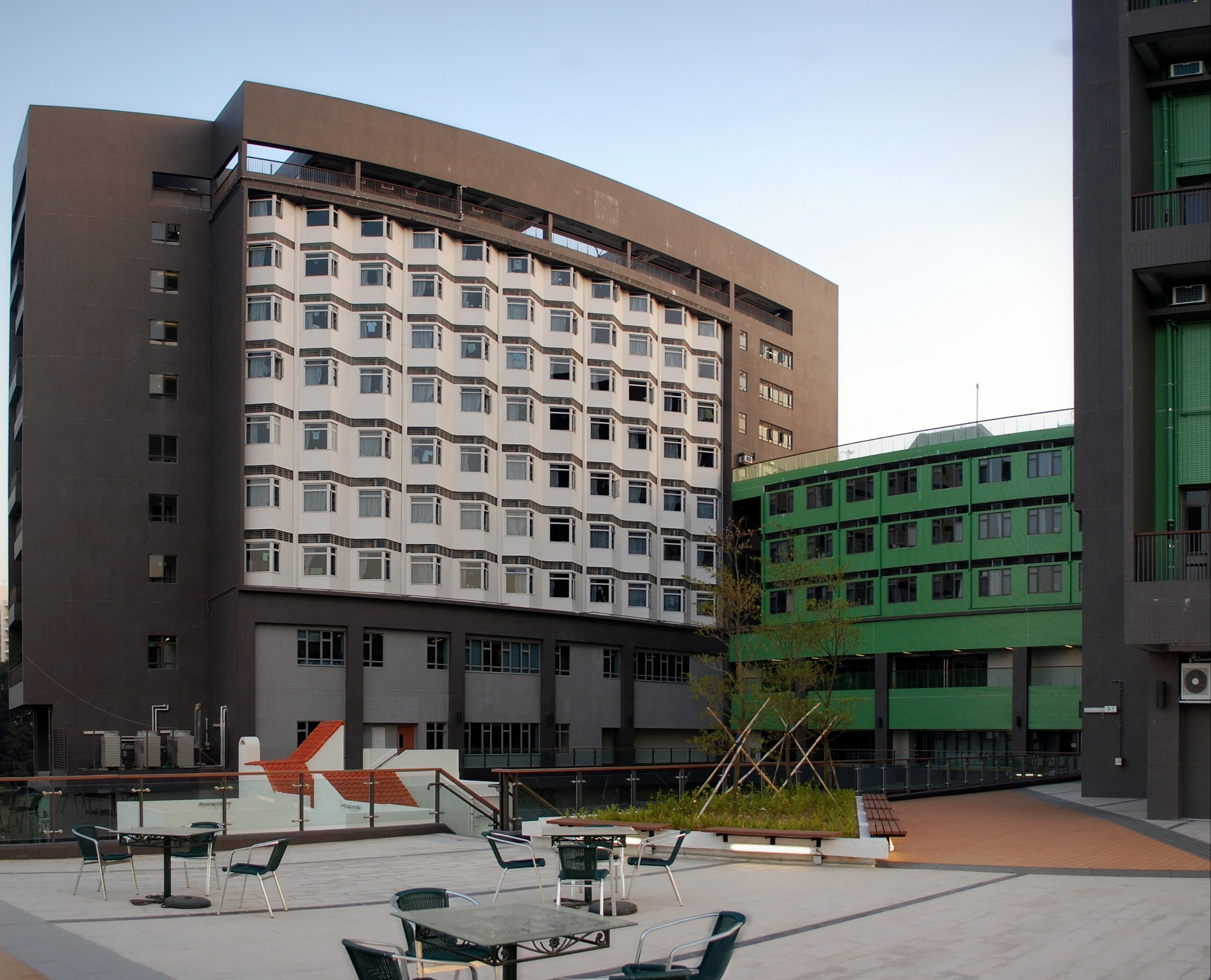 The interior courtyard of Wu Yee Sun College, Chinese University of Hong Kong. 中文（香港）: 香港中文大學伍宜孫書院